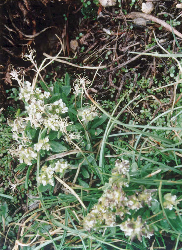 Draba monoensis — White Mountains draba and Mono draba. It is endemic to Mono County, California, where it grows in moist, rocky habitat in the alpine climate of the White Mountains — in the Inyo National Forest. USFS photo — Critically imperiled species.